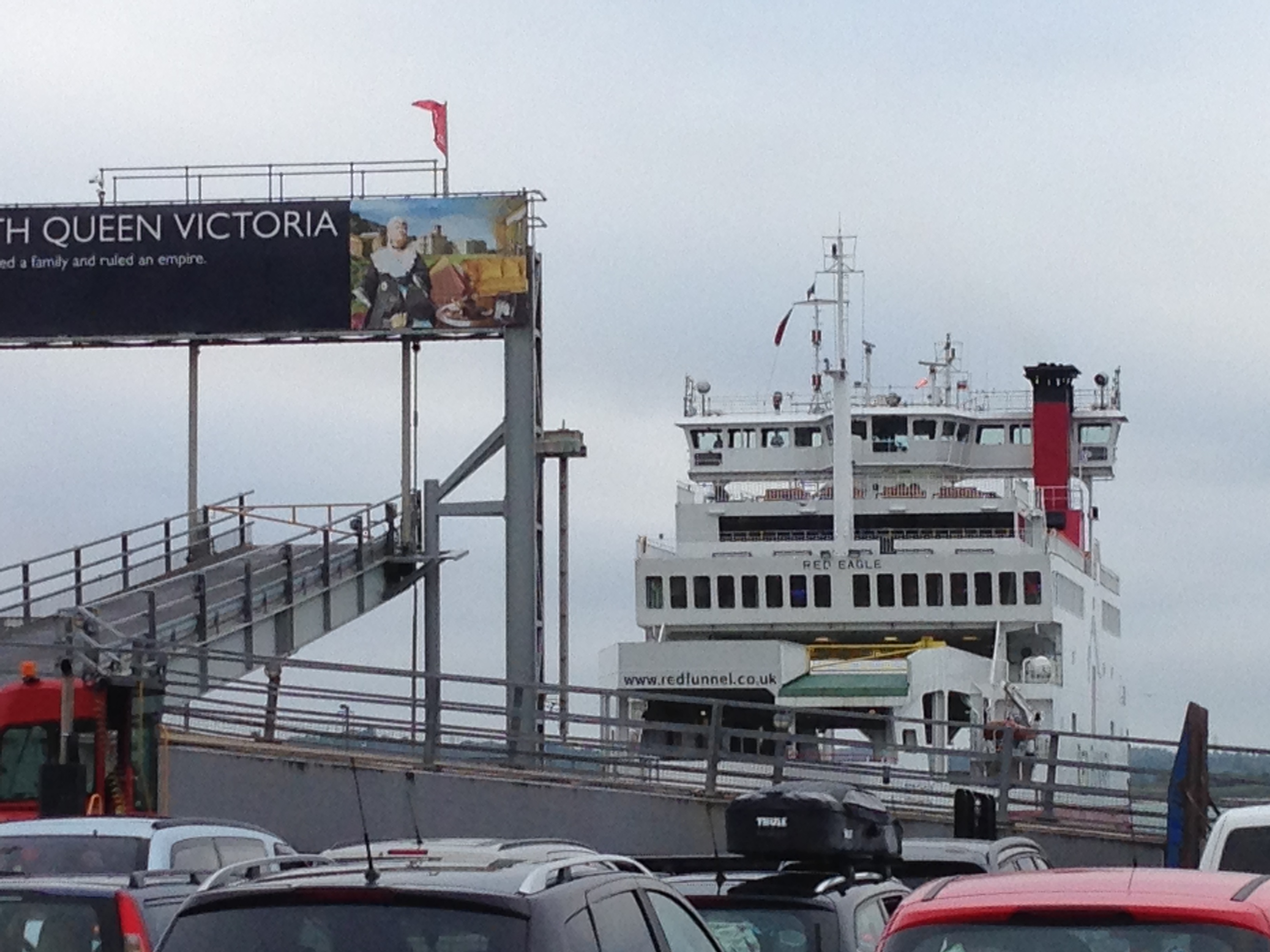 MV Red Eagle arrives at the Red Funnel terminal in Southampton in preparation for its first service of the day. The Linkspan has been raised to allow the ferry to dock.